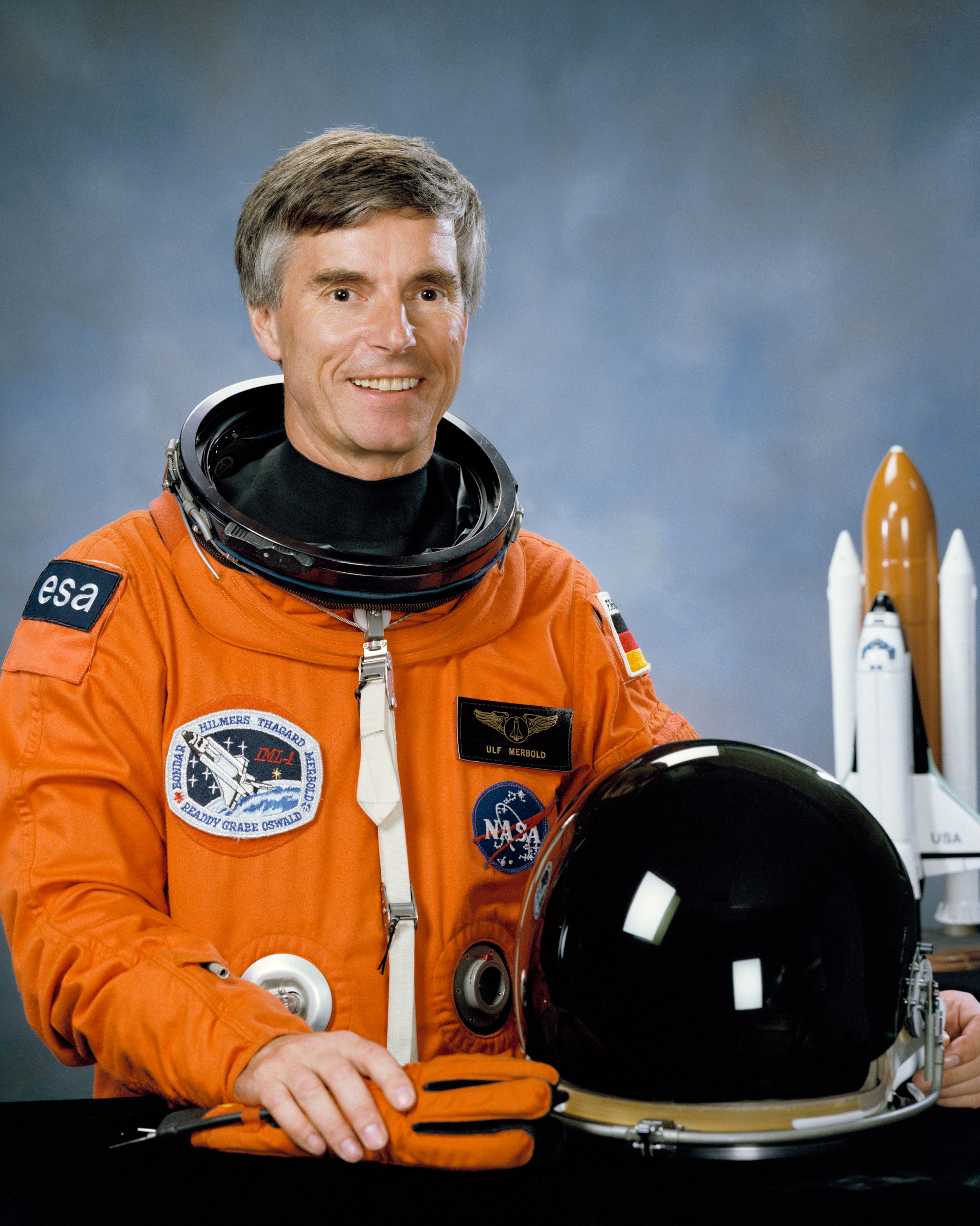 Title Official portrait of STS-42 IML-1 Payload Specialist Ulf D. Merbold Description Official portrait of STS-42 Payload Specialist Ulf D. Merbold wearing a launch and entry suit (LES) with space shuttle orbiter model displayed in the background. Merbold is representing the European Space Agency (ESA) during the International Microgravity Laboratory 1 (IML-1) mission aboard Discovery, Orbiter Vehicle (OV) 103. Photo ID S91-52649 Mission STS-042